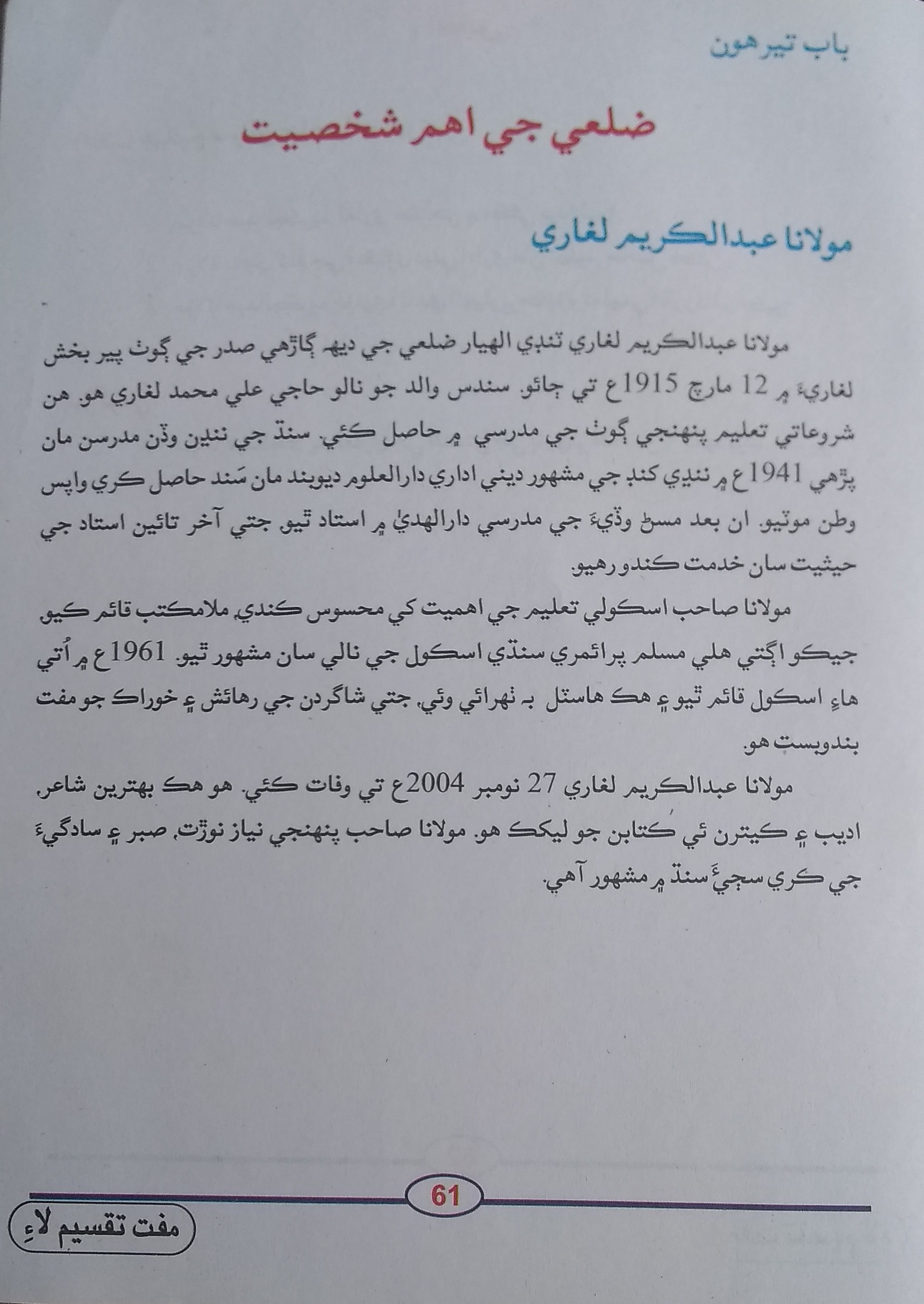 نصاب میں آپ کا تعارف